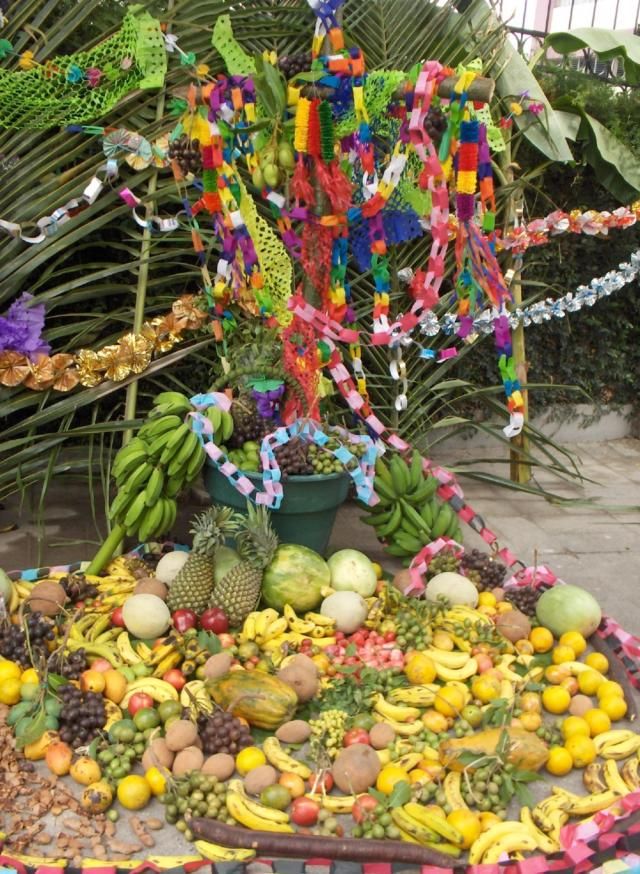 A decorated cross with offerings during the Fiesta de las Cruces or Day of the Cross in El Salvador.